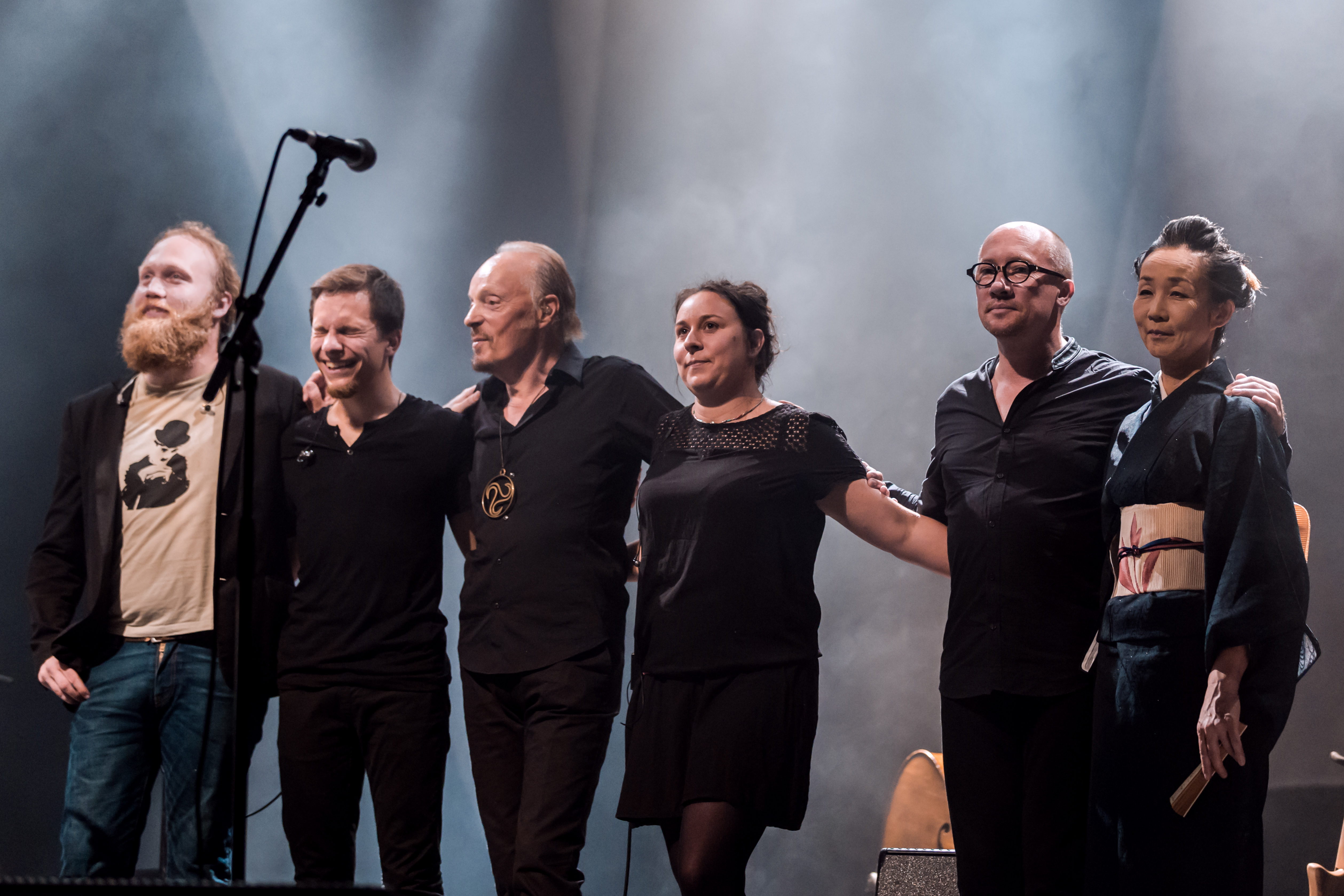 Alan Stivell in live during Cornouaille Festival (Quimper, Brittany) July 22, 2016.